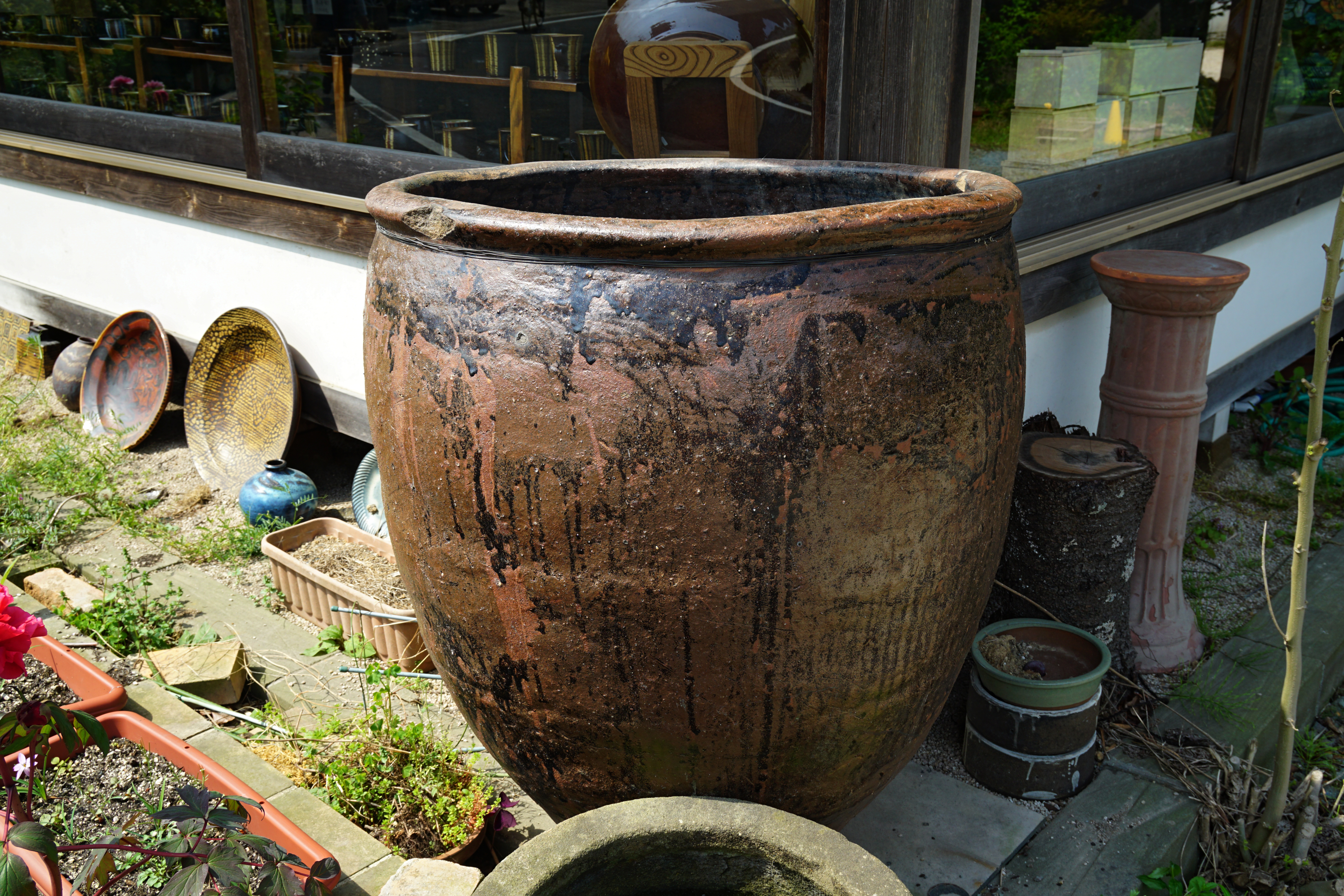 Fujina ware at Yumachi-gama in Matsue, Shimane prefecture, Japan.